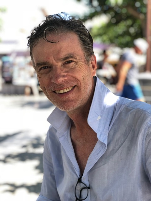 Simon Vance on vacation in France, summer 2018